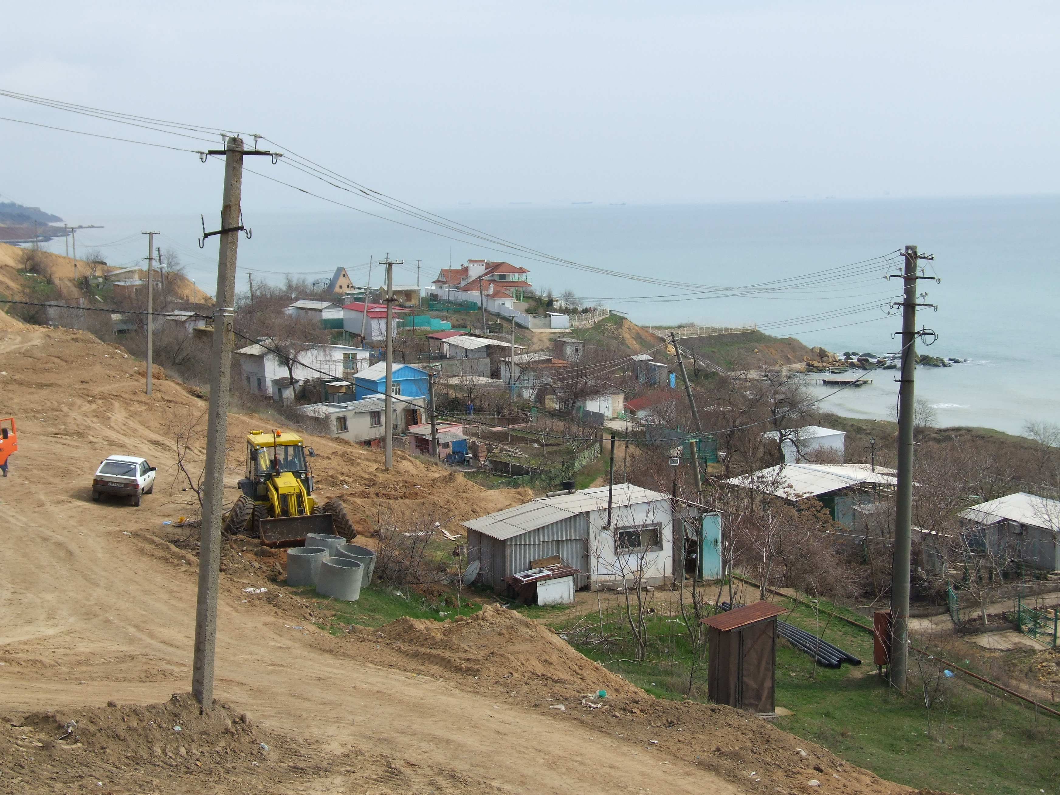 A coastal side of Nova Dofinivka village, Kominternivskyi Raion, Odessa Oblast, Ukraine